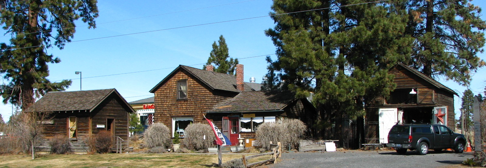 The historic Charles Boyd Homestead Group (built 1905), today located at 20410 Rivermall Avenue in Bend, Oregon, United States, is listed on the US National Register of Historic Places. The buildings in the group include the ranch house, bunk house, and ice house. The buidlings are today used as a shop.